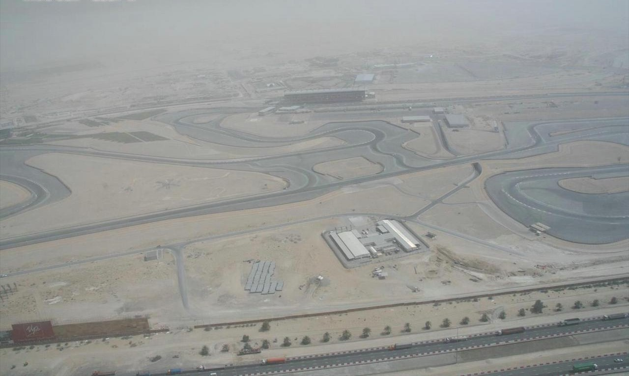 This is a photo showing Dubai Autodrome in Dubai, United Arab Emirates as seen from the air on 1 May 2007.